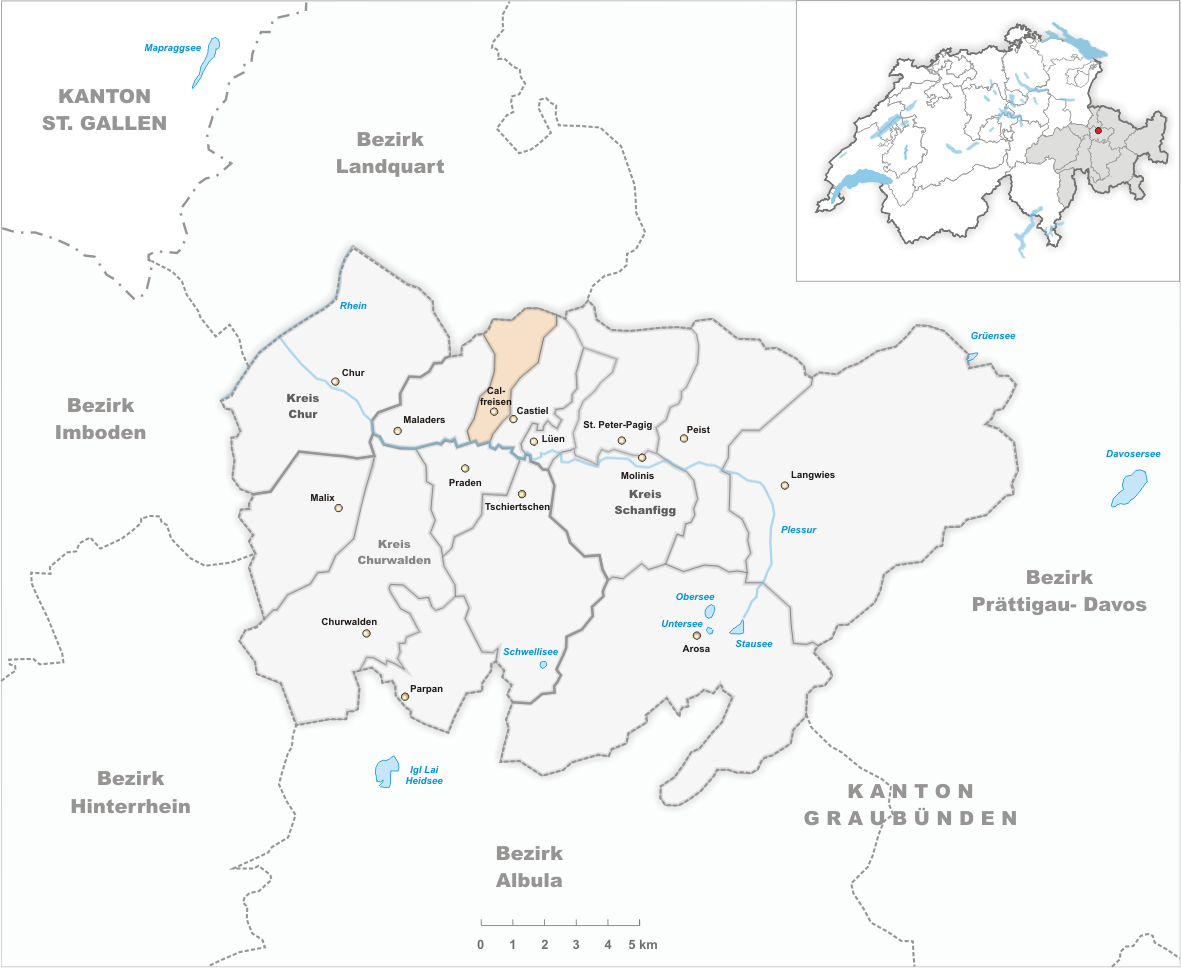 Municipality Calfreisen